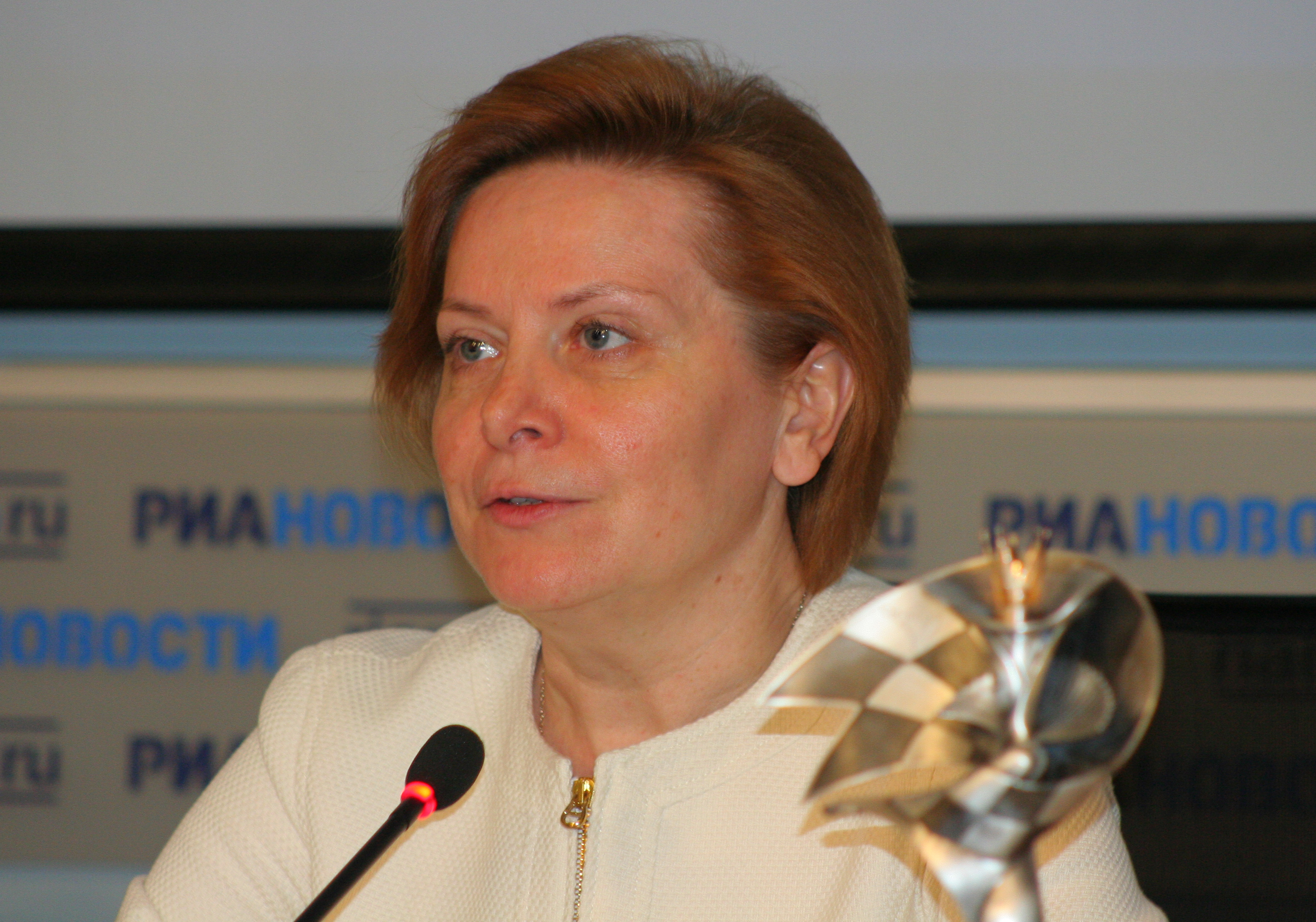 Russian politician and governor Natalya Komarova during a press conference in Moscow